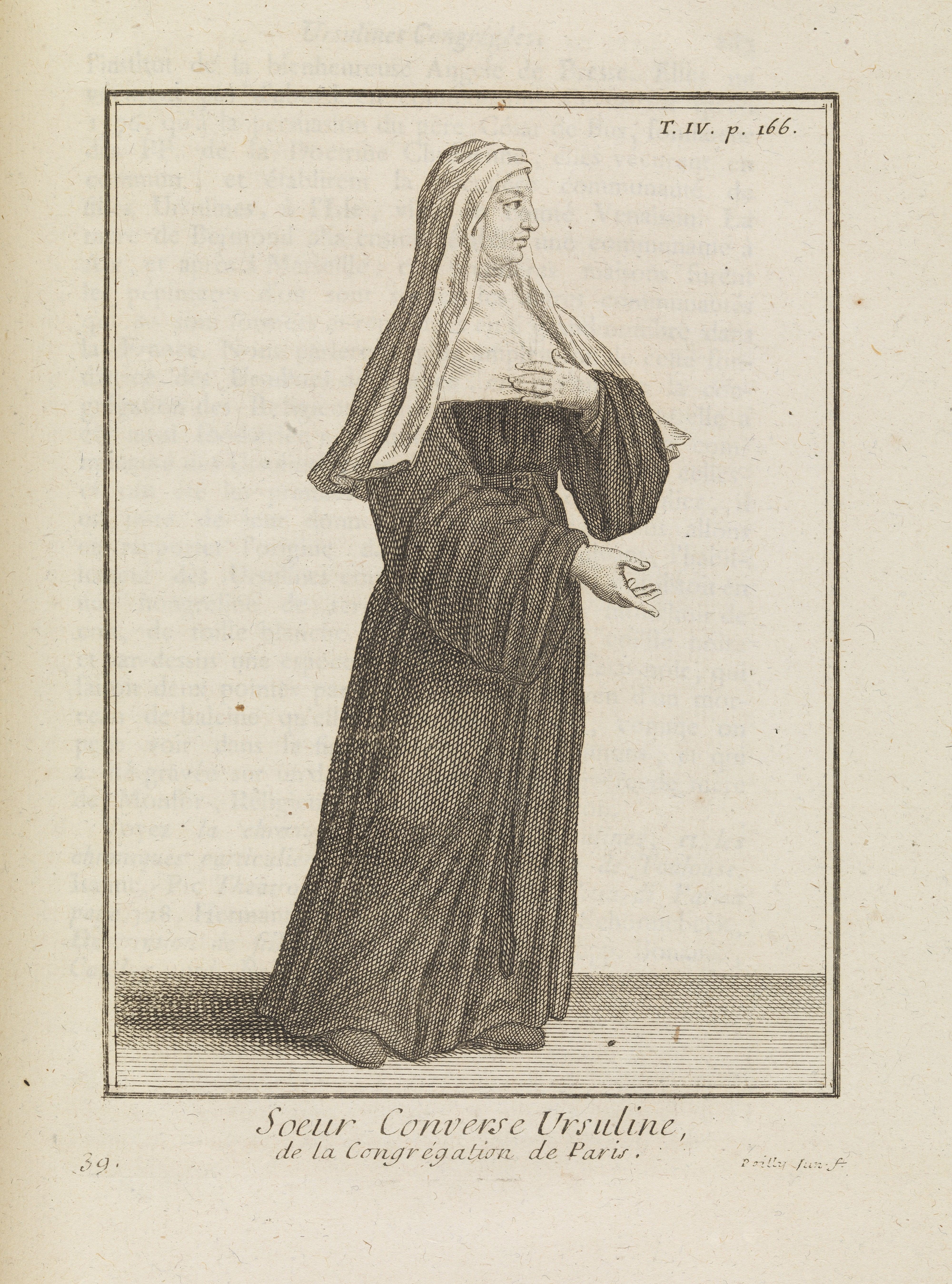 Souer Converse Ursuline de la Congregation de Paris. Rare Books Keywords: Nun; Religion; Religious Order